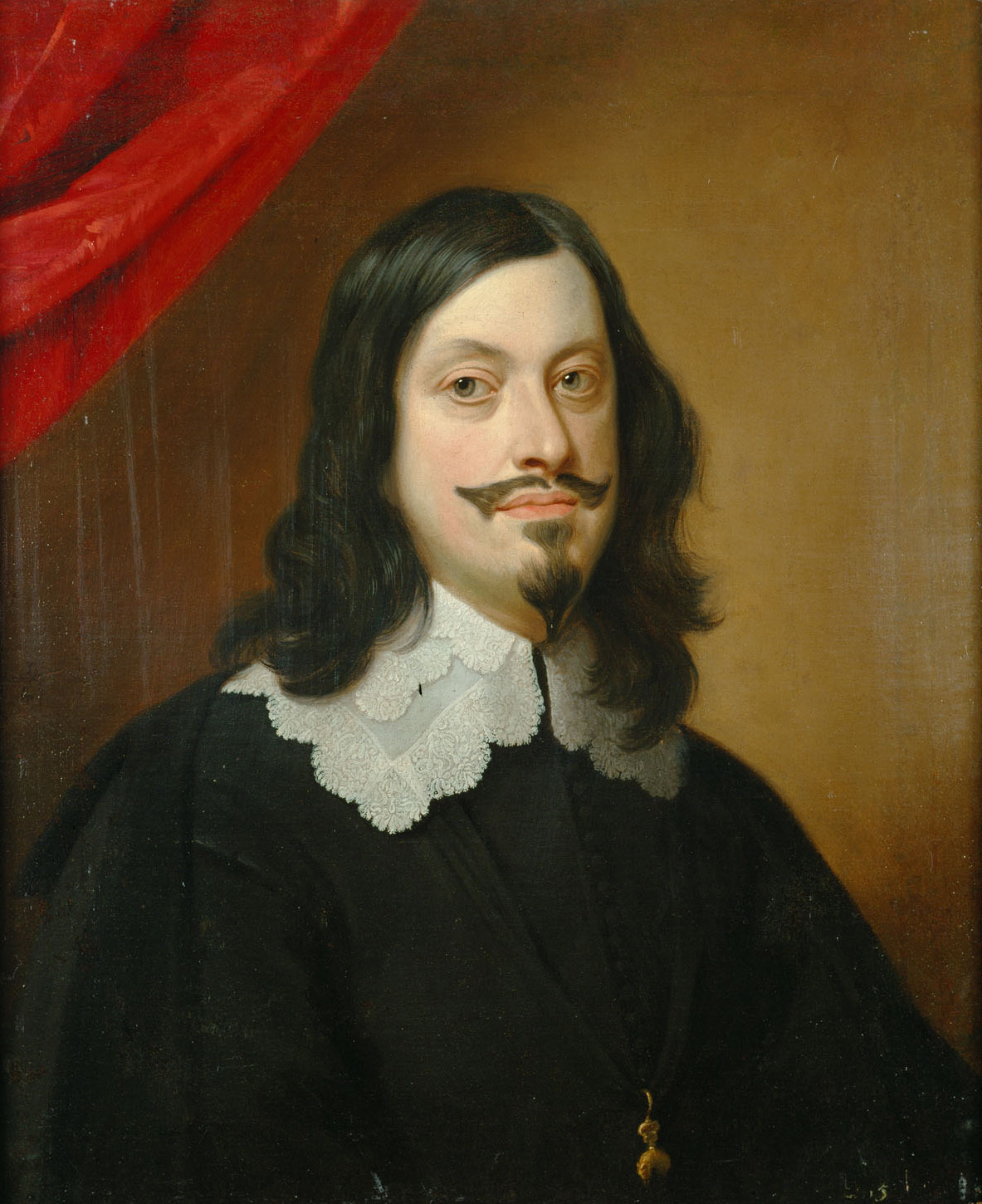 Ferdinand III, Holy Roman Emperor.